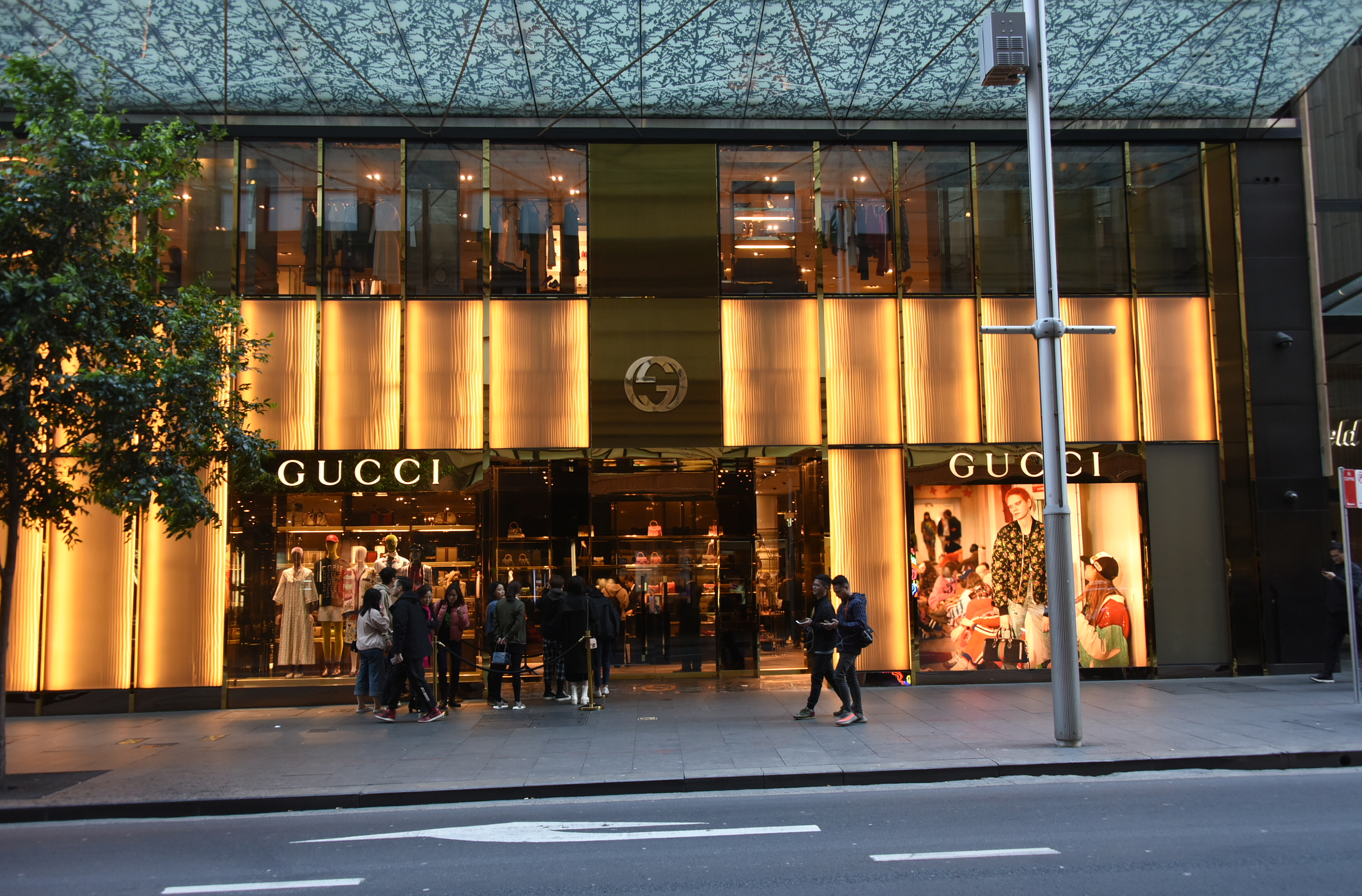 Gucci store, Sydney